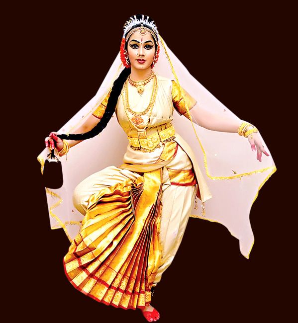 Achuta Manasa, Kuchipudi Dancer, Andhrapradesh